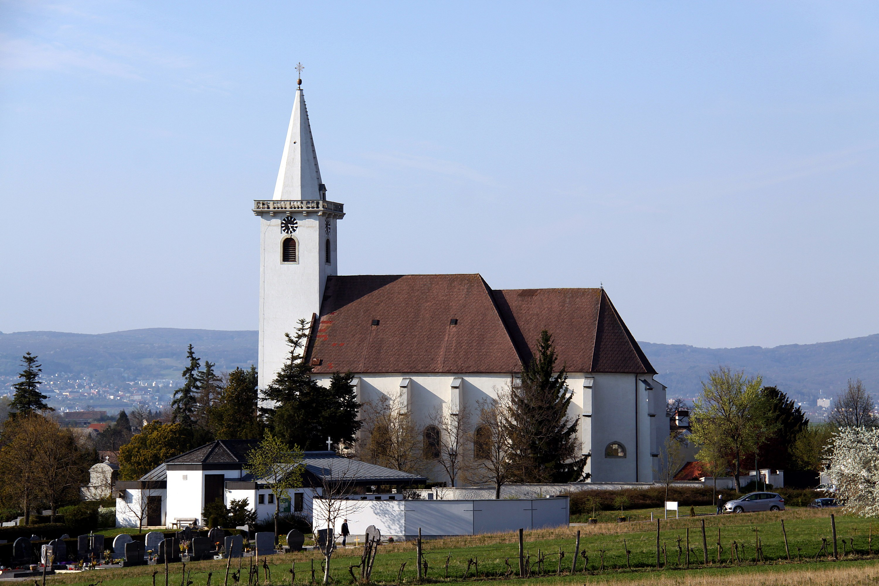 Parish church to All Saints- Siegendorf. Object location47° 46′ 43.22″ N, 16° 32′ 33.38″ E